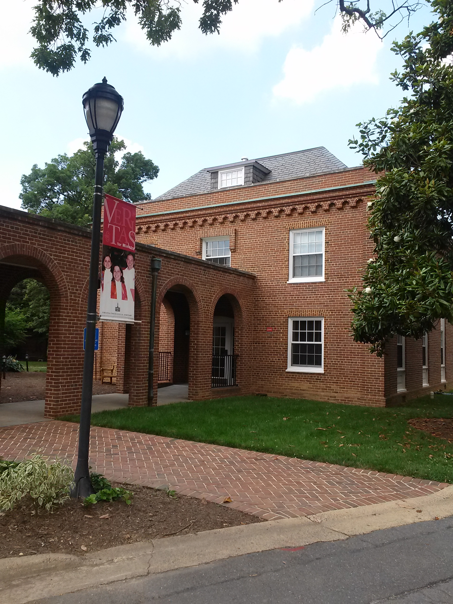 Wilmer Hall at Virginia Theological Seminary, June 2014